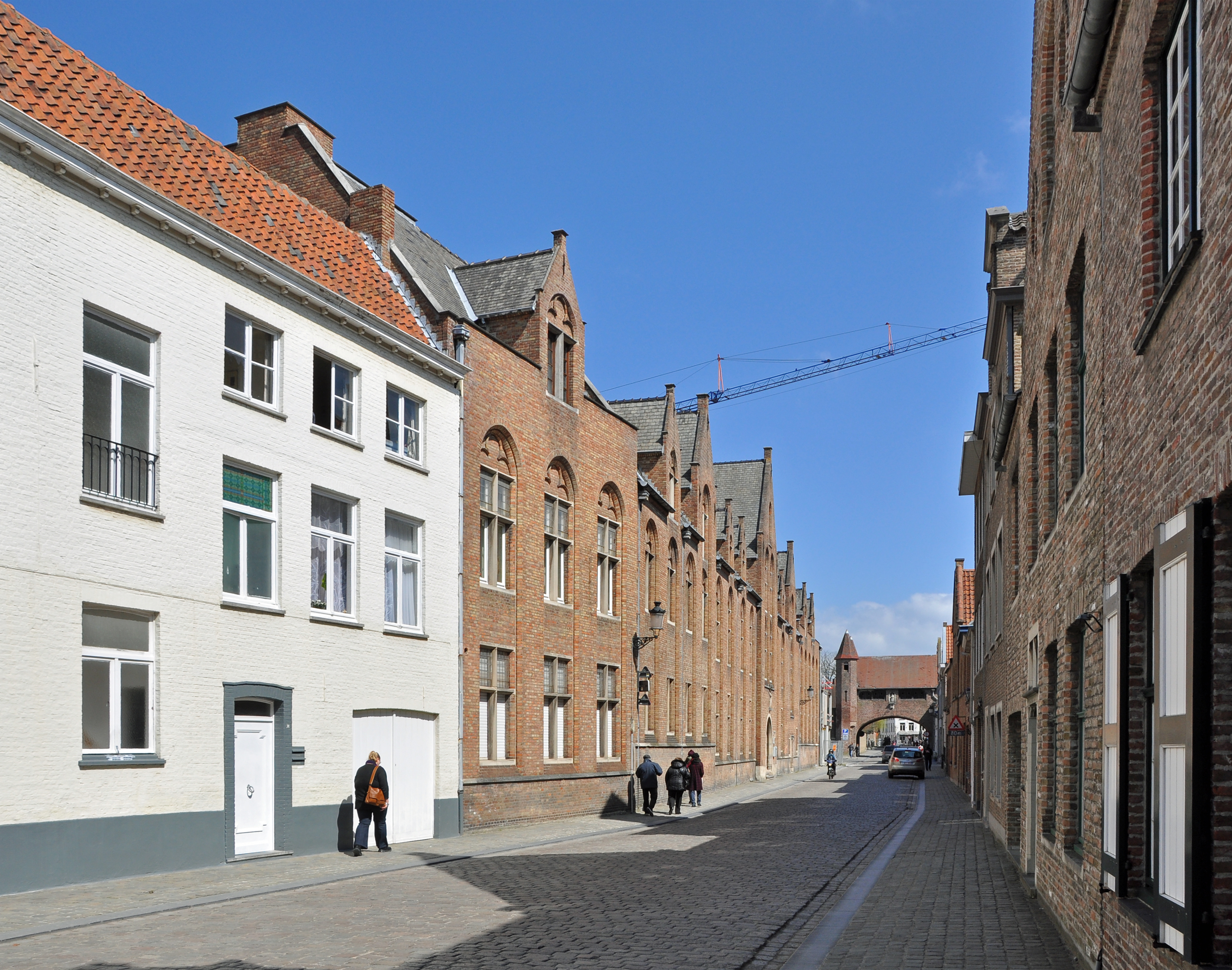 Bruges (Belgium): Zonnekemeers (street)